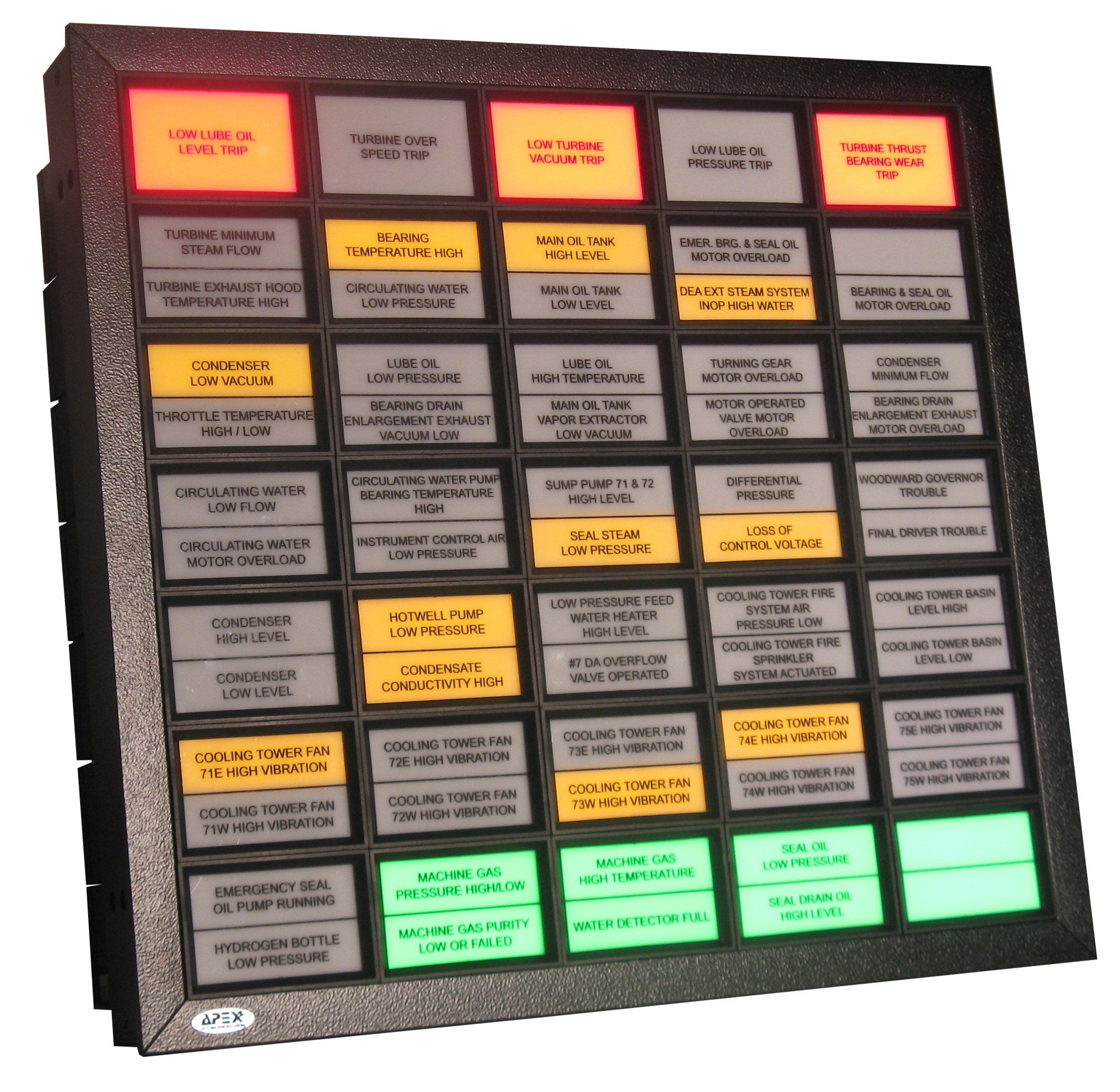 This is an example of a Annunciator Panel that would be used in wide verity of plants.